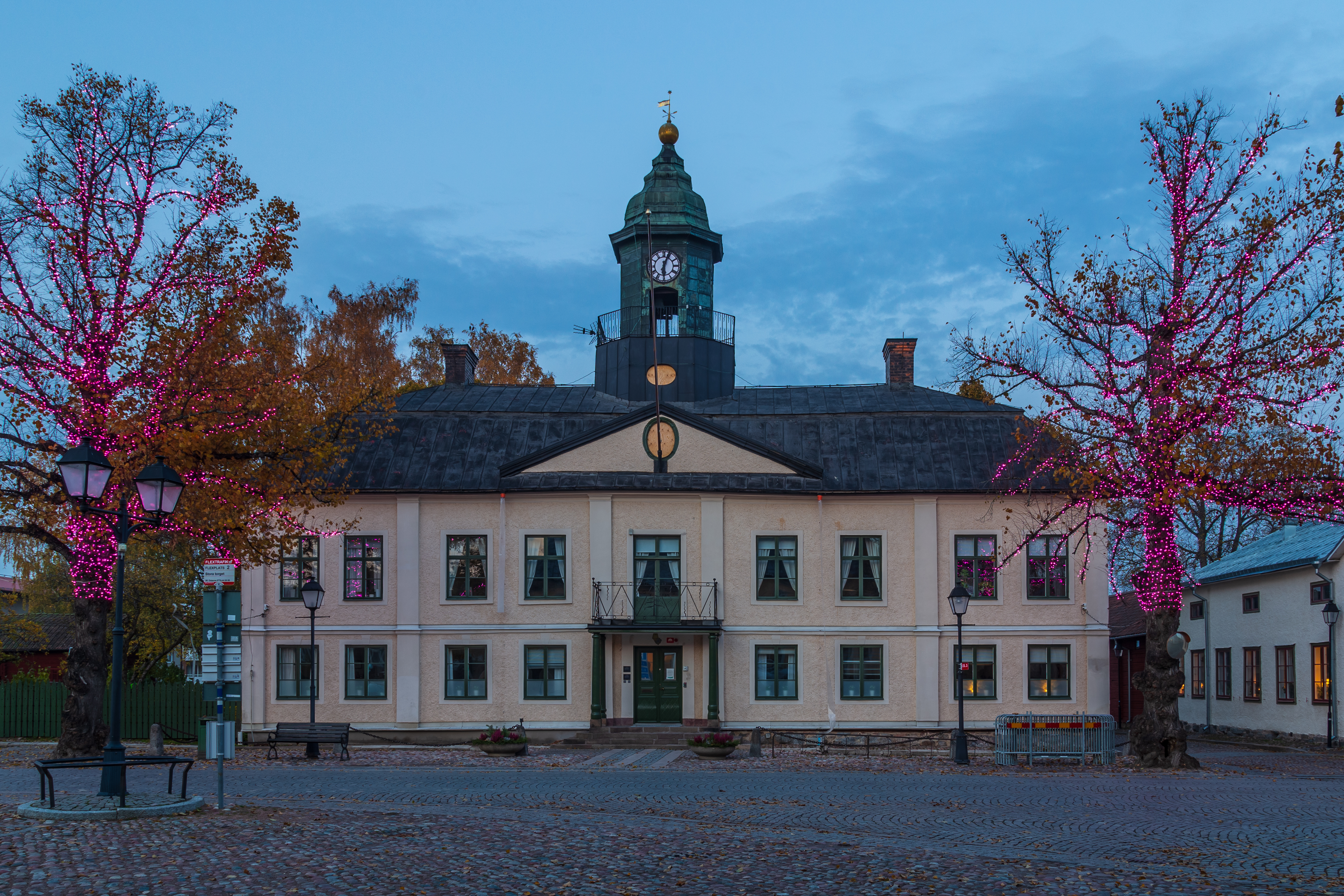 Hedemora Town Hall. Pink lights in the lime-trees (Tilia x europaea), to raise awareness to the breast cancer month (every October). Hedemora, Dalarna County, Sweden.